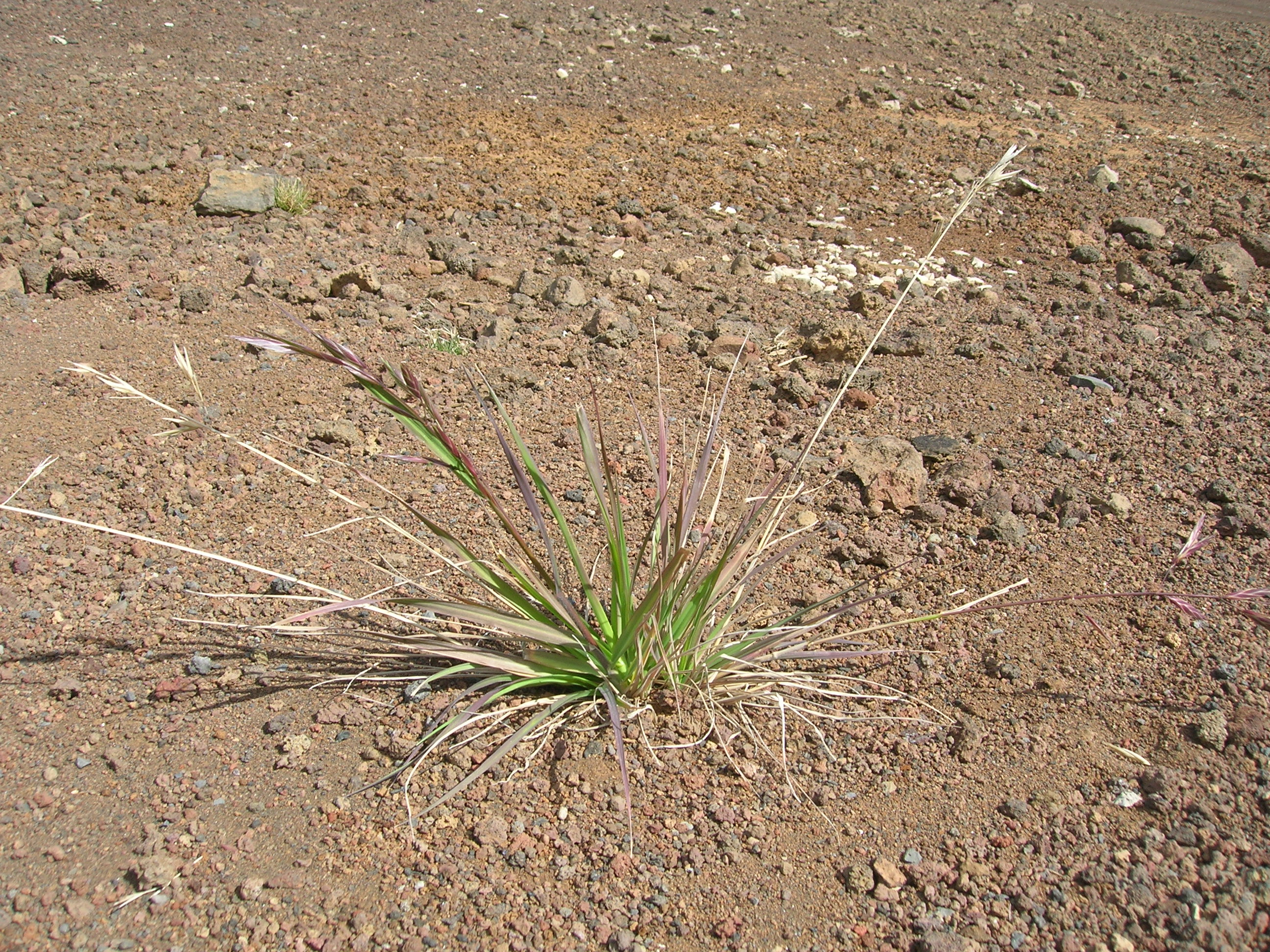 Bromus catharticus (habit). Location: Maui, Science City